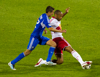 Montreal Impact's Davy Arnaud (blue) and New York Red Bulls' Thierry Henry (white and red) in a Major League Soccer match at Stade Saputo in Montreal on 28 July 2012.